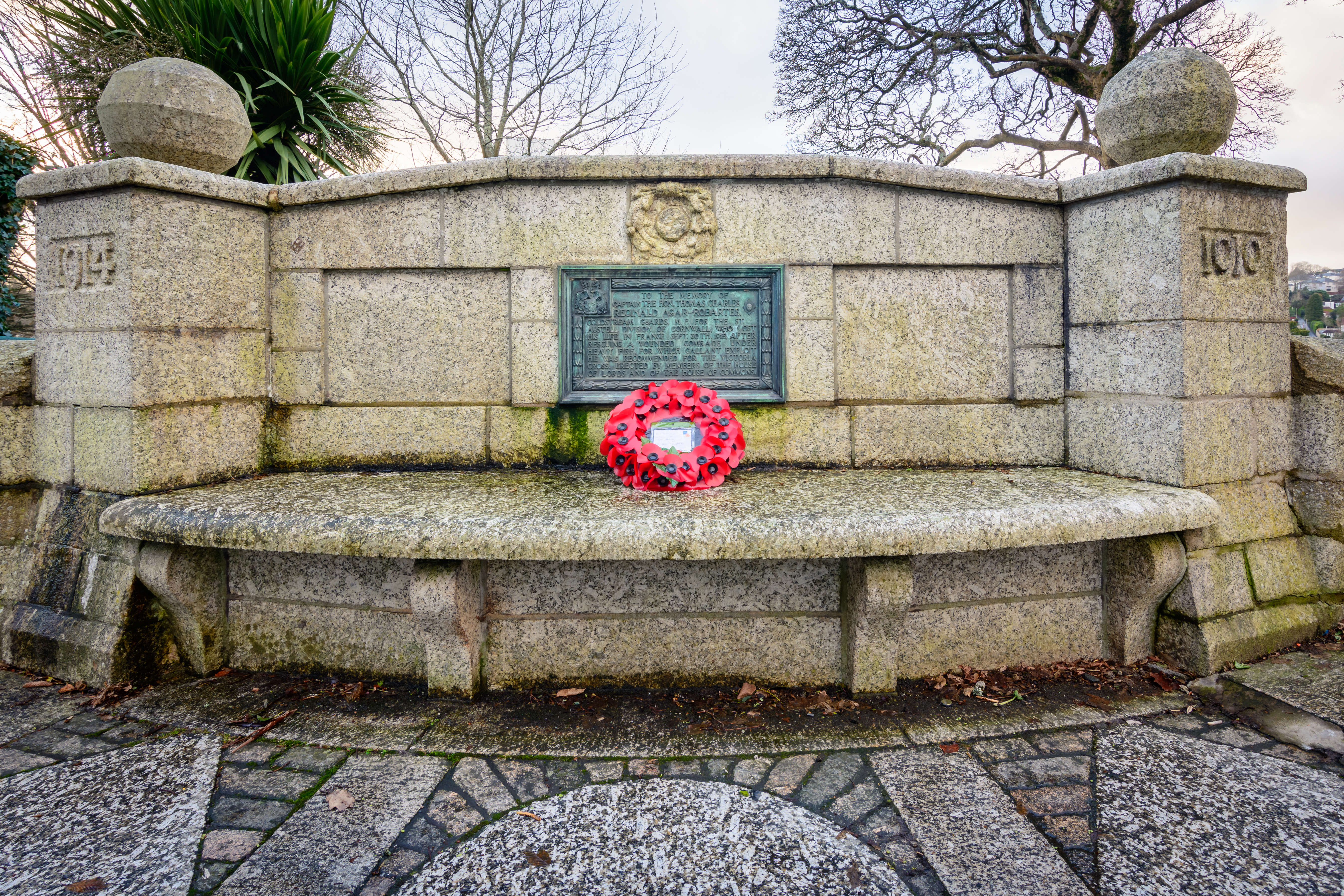 The memorial seat dedicated to Captain The Hon. Thomas Charles Reginald Agar-Roberts of the Coldstream Guards